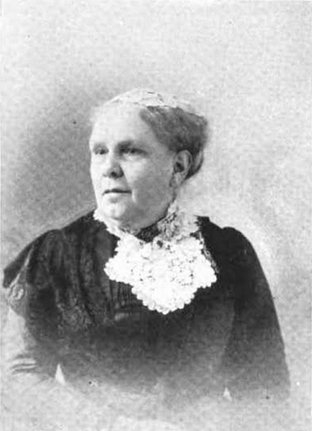 Rebecca Naylor Hazard